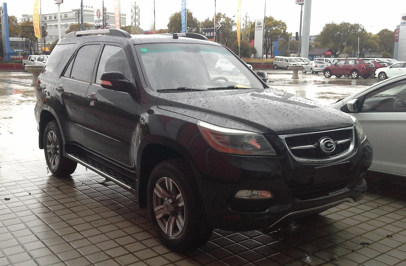 Gonow Aoosed GX5 photographed in Shanghai, China.